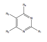 Pyrimidine